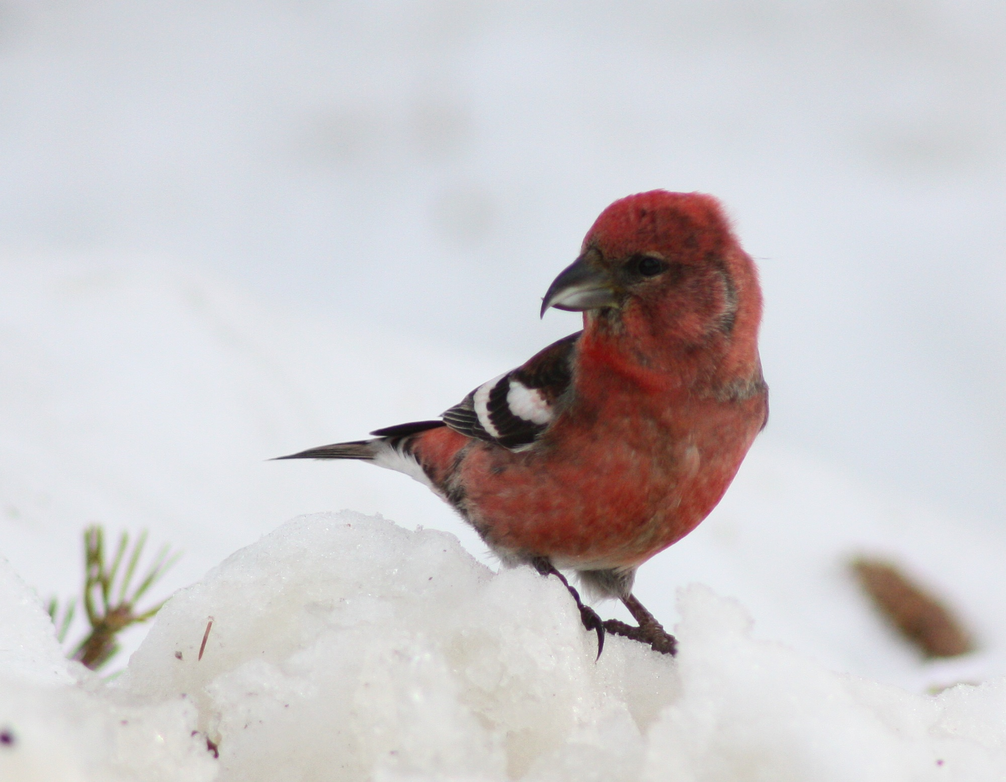 Two-barred Crossbill Loxia leucoptera bifasciata (male) in Kittilä, Finland.